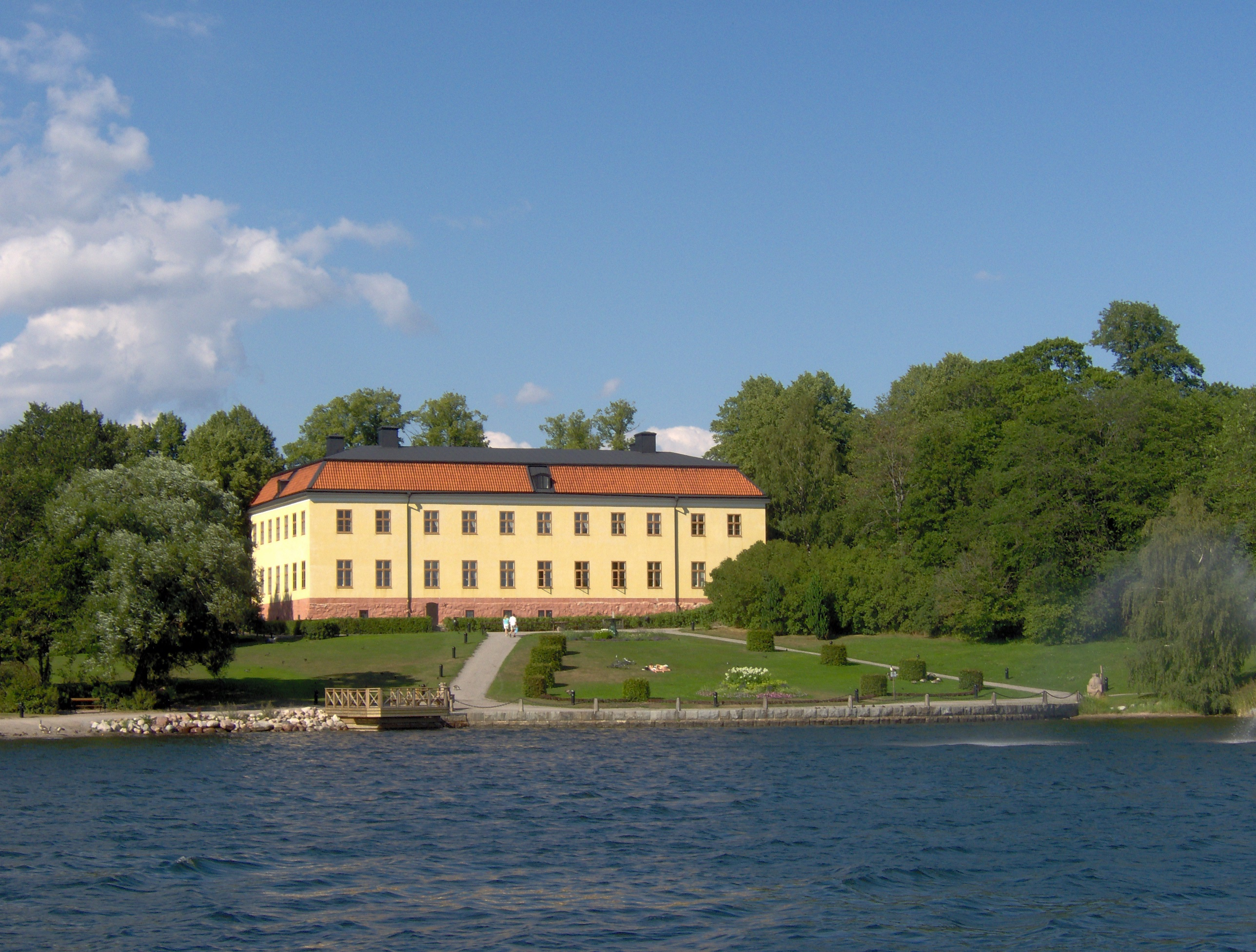 Picture of Edsbergs slott.